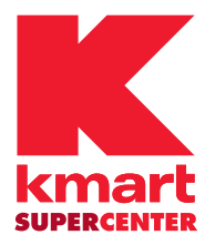 Logo used for Kmart Supercenters 2004-present